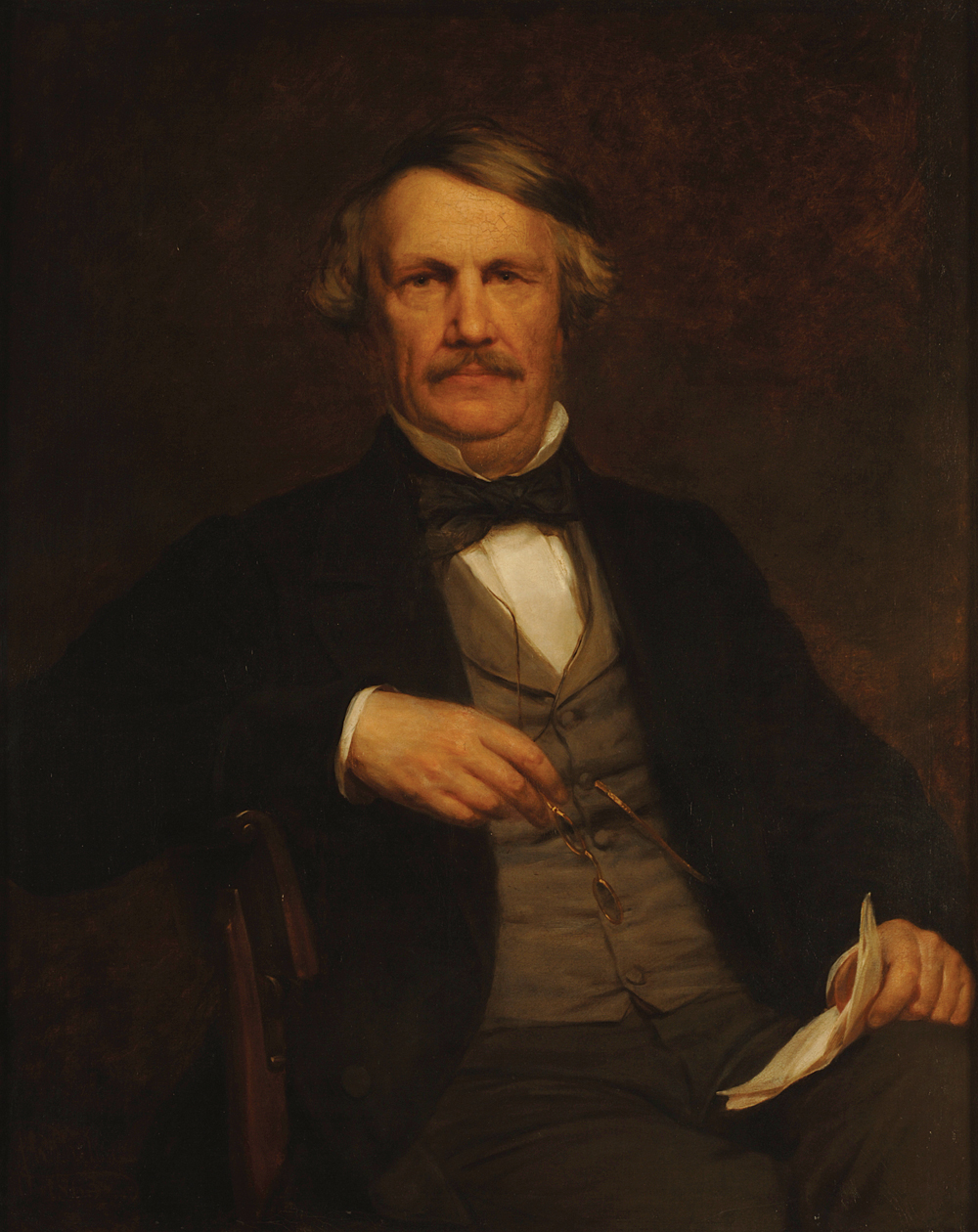 John Laird Mair Lawrence (1811–1879), Lord Lawrence, Viceroy of India, Oil on canvas, 102 x 81 cm, Guildhall Art Gallery, London